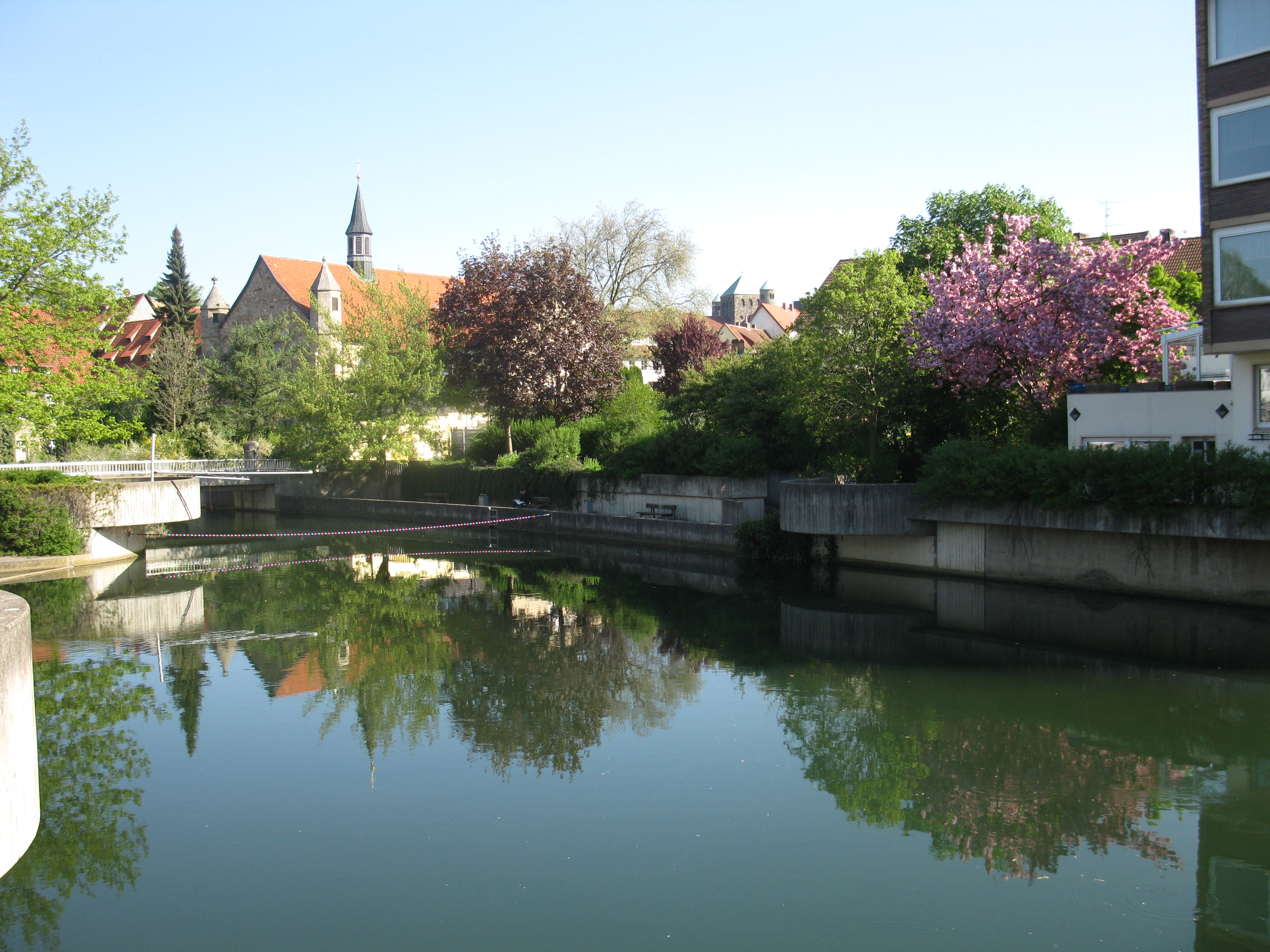 River Innerste and Saint Magdalena's Church, Hildesheim